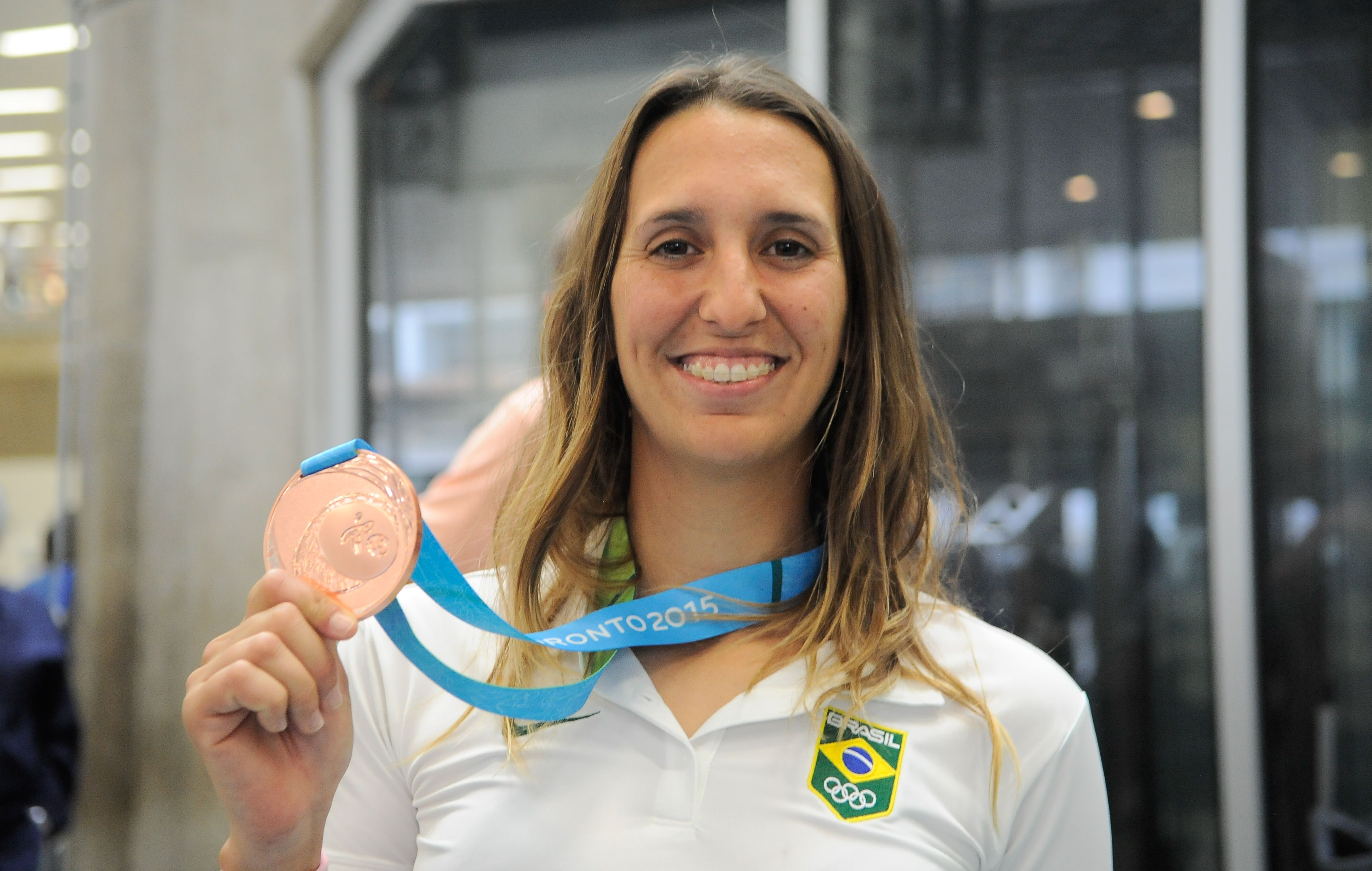 Fernanda Decnop - Photo by Tânia Rêgo/Agência Brasil CCBY3.0